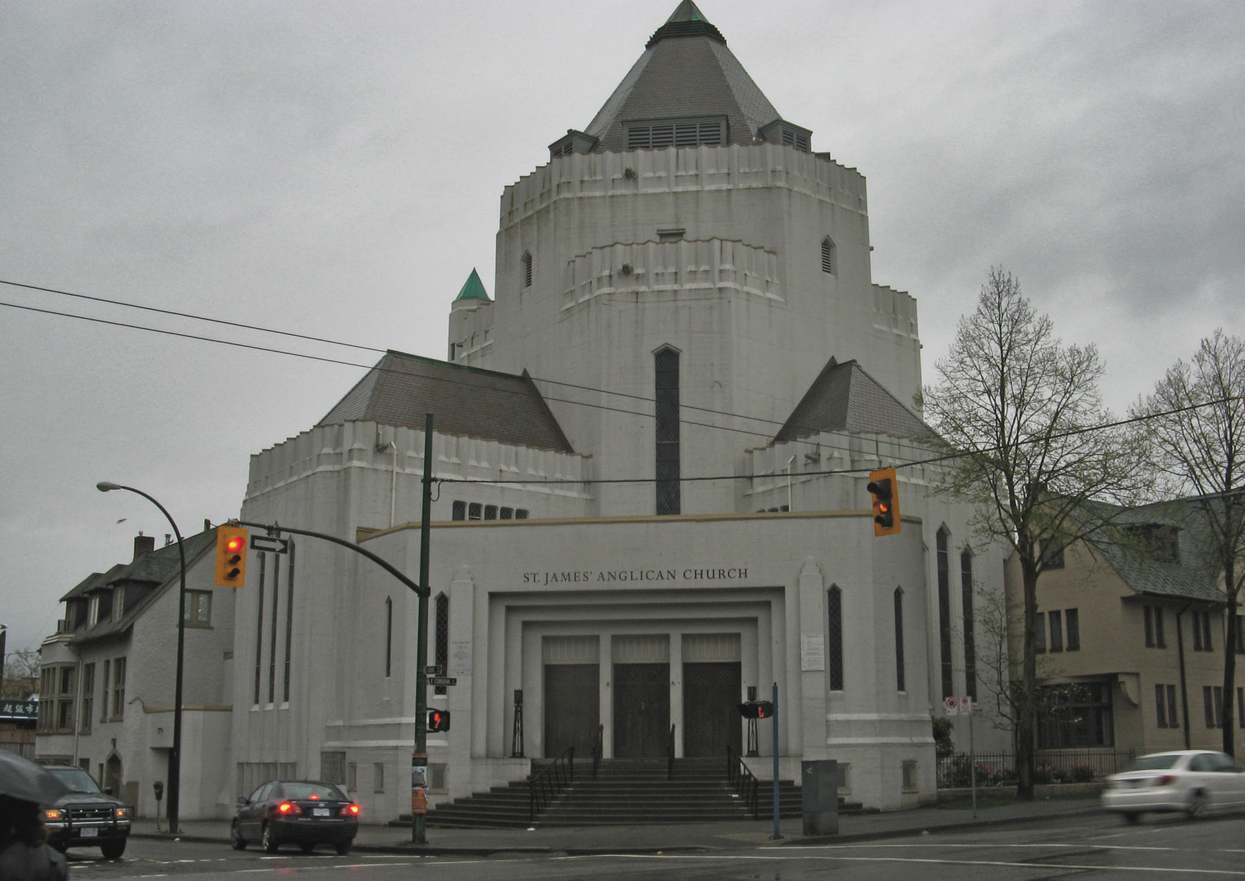 St James Anglican Church, Vancouver. Taken by me, April 2007.